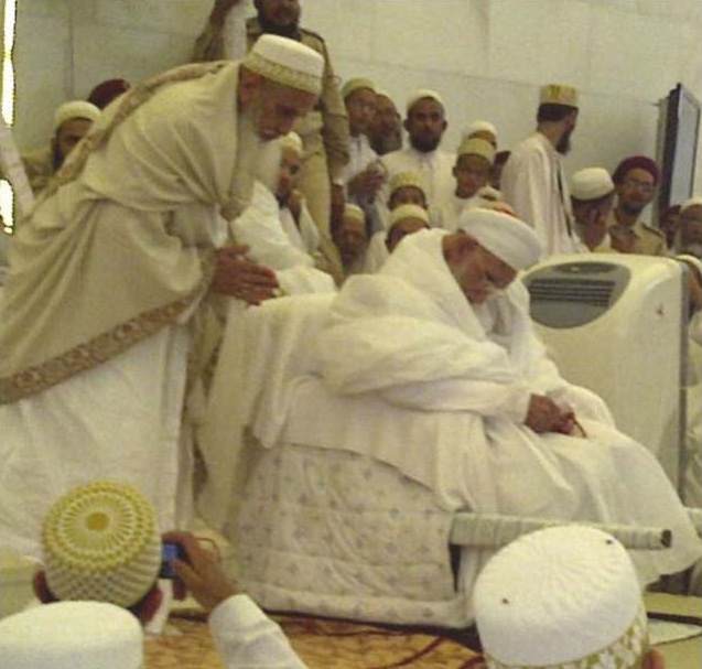 The late Dai Burhanuddin and his second son Dai Muffadal Saifuddin, one of two claimants for the leadership of the Dawoodi Bohra community